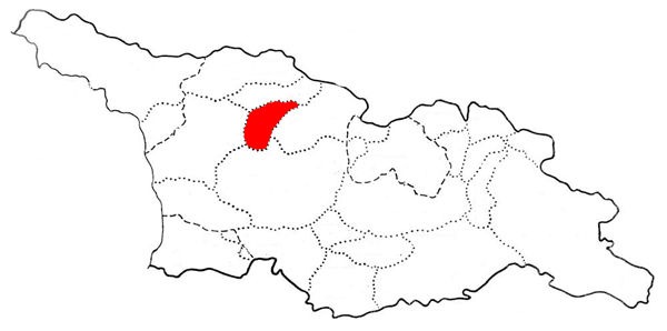 Location of Lechkhumi district in Georgia